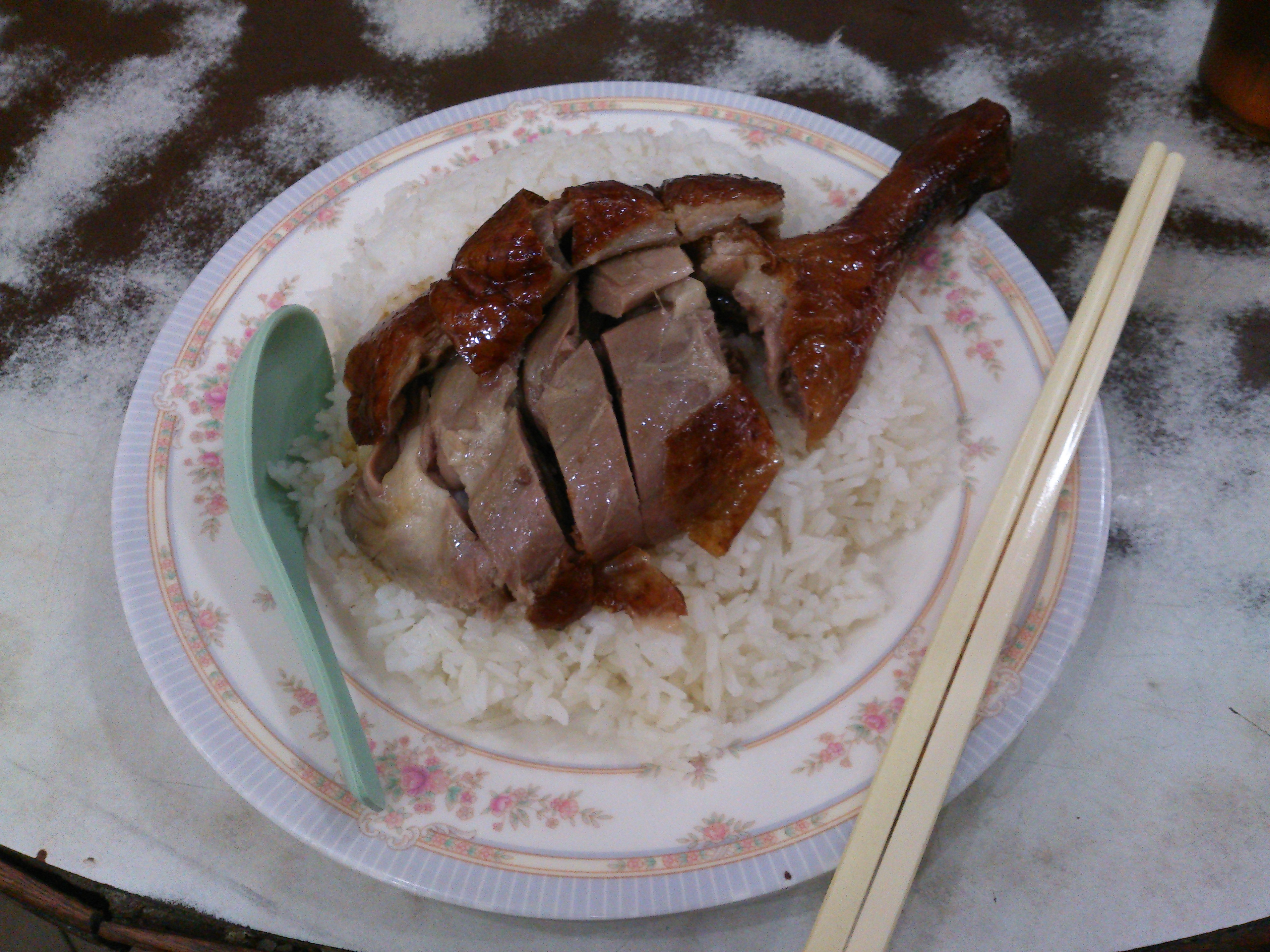 Roast Goose Rice